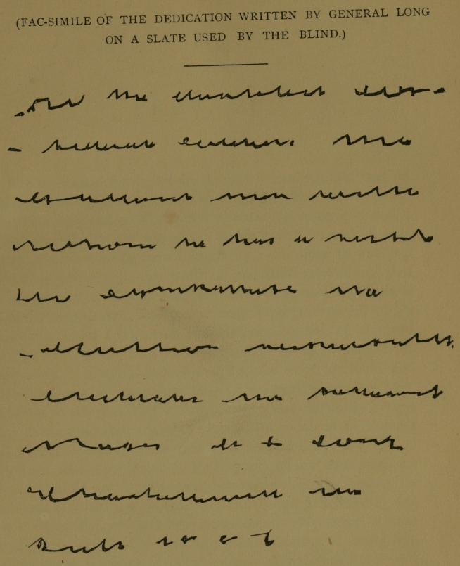 Example of General Armistead Long's slate-writing after his blindness, which was copied by his family members into a 700-page book